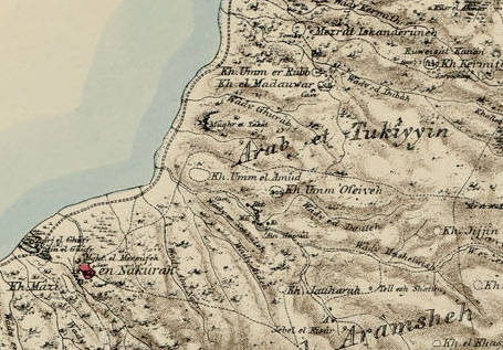 Map of Western Palestine in 26 sheets from the surveys conducted for the Committee of the Palestine Exploration Fund by Lietenanats C.R. Conder and H.H. Kitchener R.E. during the years 1872-1877. Photozincographed and Printed for the Committee ...at the Ordnance Survey Office Southampton. OCLC 234168442. Note I: Marked as copyrighted by Jewish National & University Library, which is not grounded. Note II: This is a collection 72dpi images. For the map in higher resolution, check either David Rumsey Map Collection, Israel Antiquities Authority, The Digital Archaeological Atlas of the Holy Land, Amud Anan (Hebrew), or a CD from BiblePlaces.